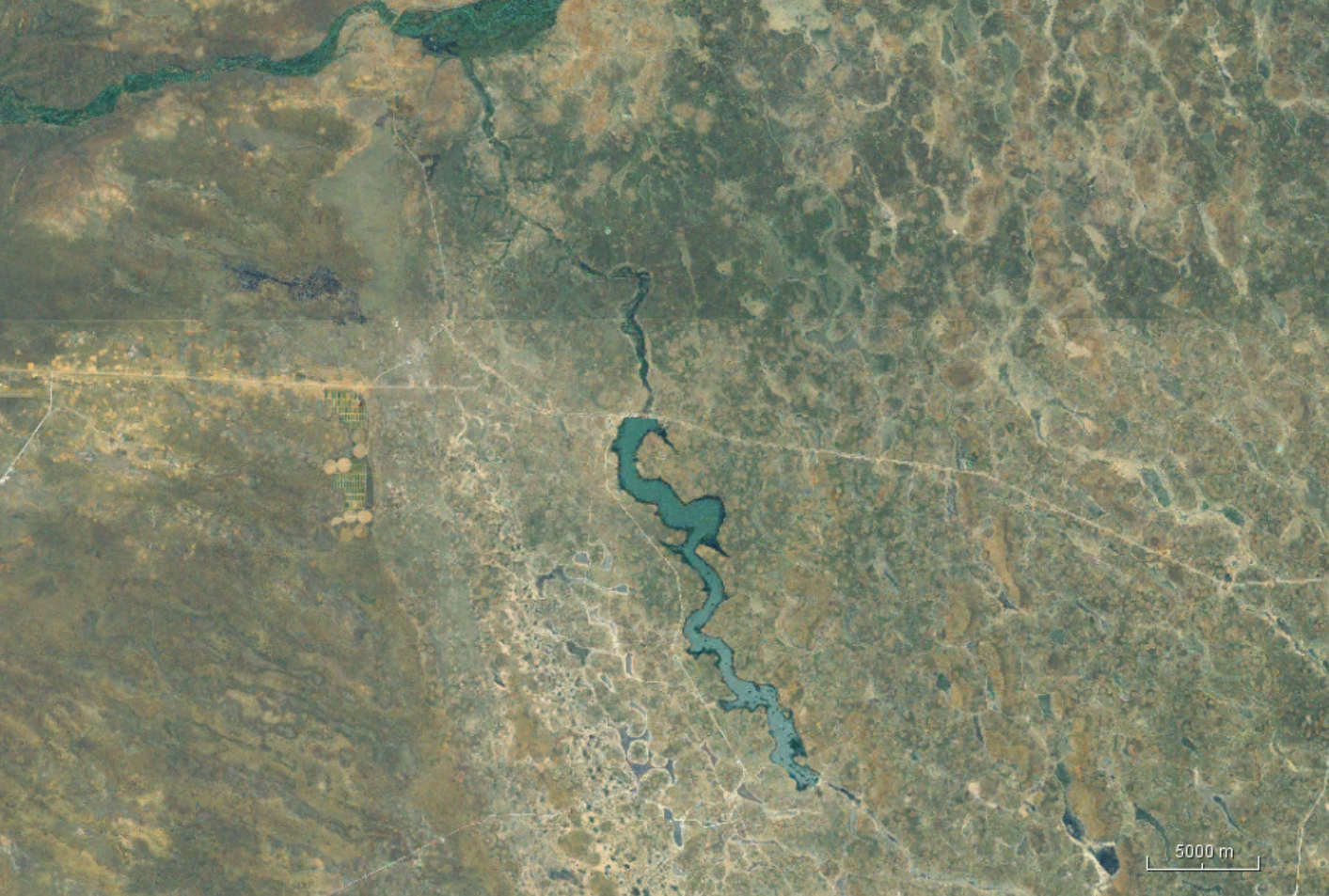 Olushandja Dam from space